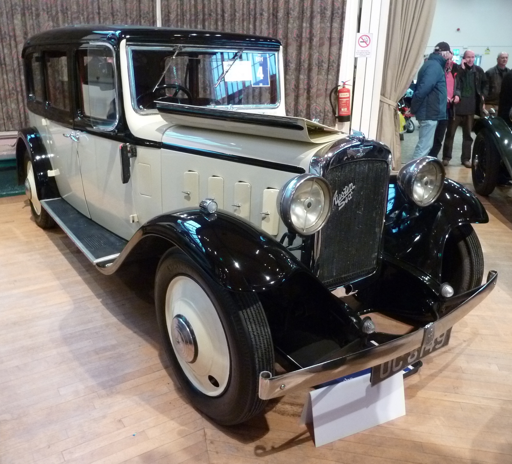 Austin Sixteen Carlton saloon, long wheelbase and fitted with two fold-out occasional seats to seat a total of seven people From H & H Catalogue Reg Number: OC 8149, Chassis Number: E/RN/1078/16, Engine Number: 34167, cc:2249 Body Colour: Cream / Black, Trim Colour:Red First registered on February 28th 1934, chassis E/RN/1078/16 began life in Birmingham (or so its number plate would imply). Bodied as a four-door six-light Carlton Saloon, its 2249cc six-cylinder engine is allied to four-speed manual transmission with the benefit of synchromesh on 3rd and 4th gears. Treated to a bare-metal respray as part of an extensive restoration that is estimated to have cost its last registered keeper, D. Norbury Esq. of Whitefield, some £25,000, the Austin's striking Ivory over Black livery is complemented by Red leather upholstery and matching carpets. Deemed by the vendor to possess "a smooth, quiet engine, lovely gear change and excellent underside", this smart Post Vintage saloon is offered for sale with copy handbook, sundry restoration photos and fresh MOT certificate.